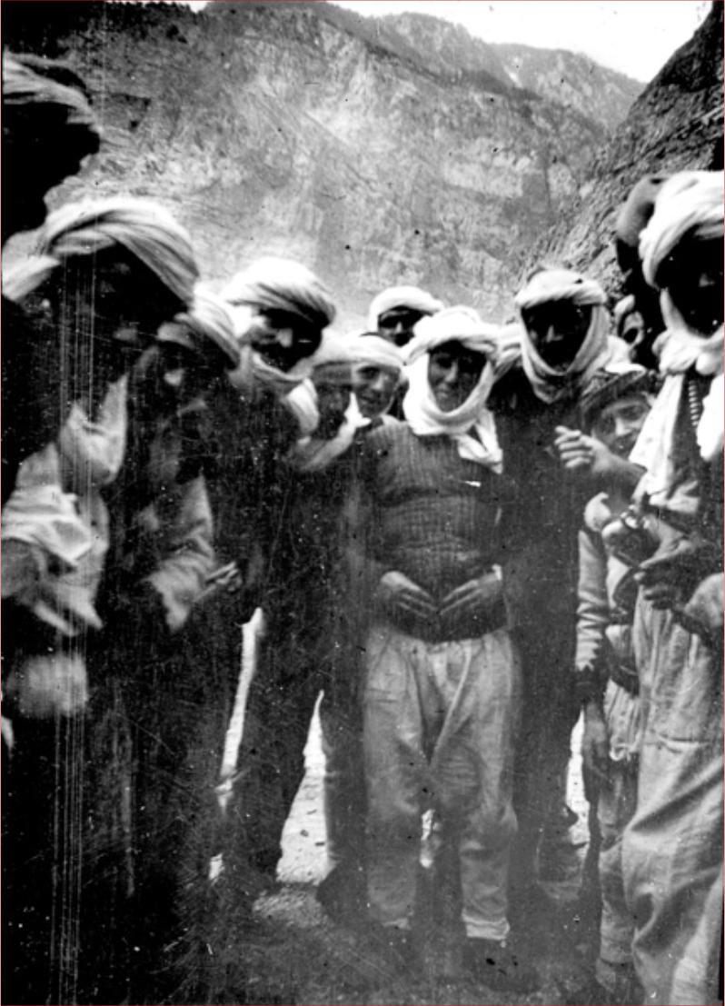 ED010_RAI 400.13168 Albania. Selca. A young Sworn Virgin surrounded by men of the Kelmendi tribe, at Selca in Kelmendi territory (Photo: Edith Durham, 17 May 1908).